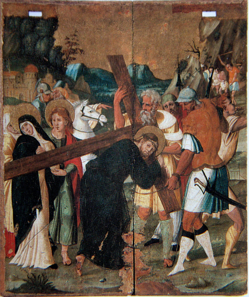 Taula Portant la Creu cap al Calvari de l'antic retaule de Santa Agnès de Malanyanes, actualment al Museu diocesà de Barcelona (Catalonia), obra renaixentista de Jaume Forner de 1535